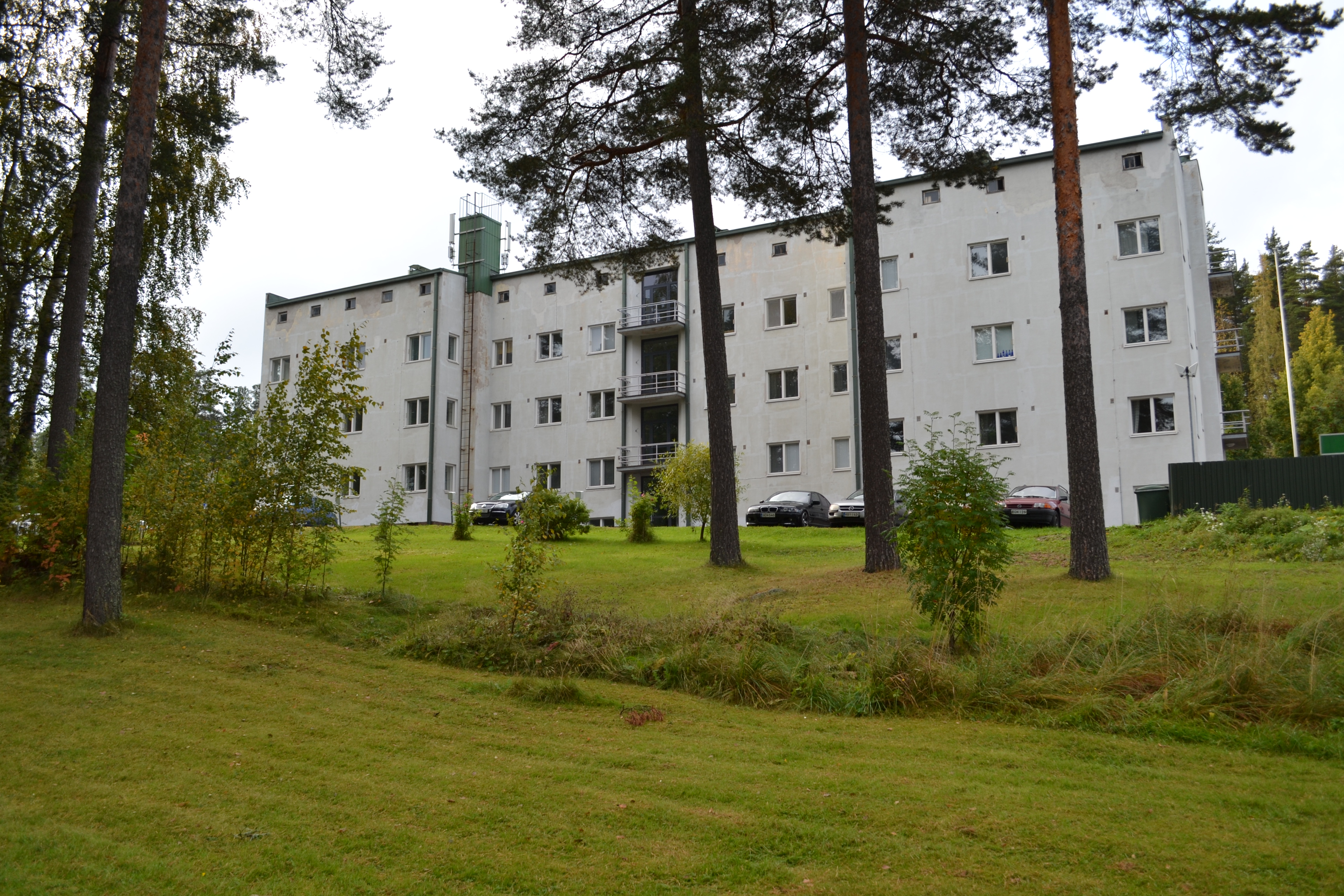 An apartment building on the street Vesmannintie in the district of Vaajakoski